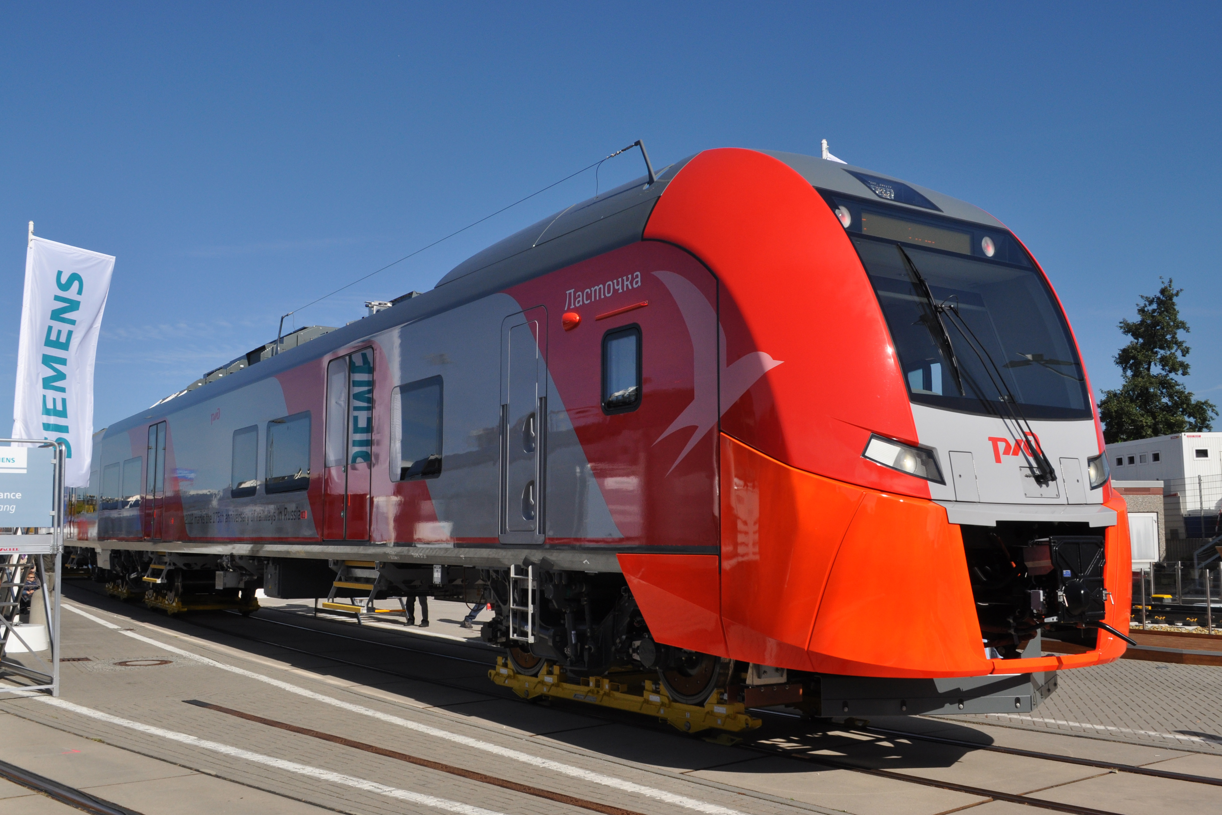 Siemens Desiro Rus ES1-010 at the InnoTrans 2012 at Berlin